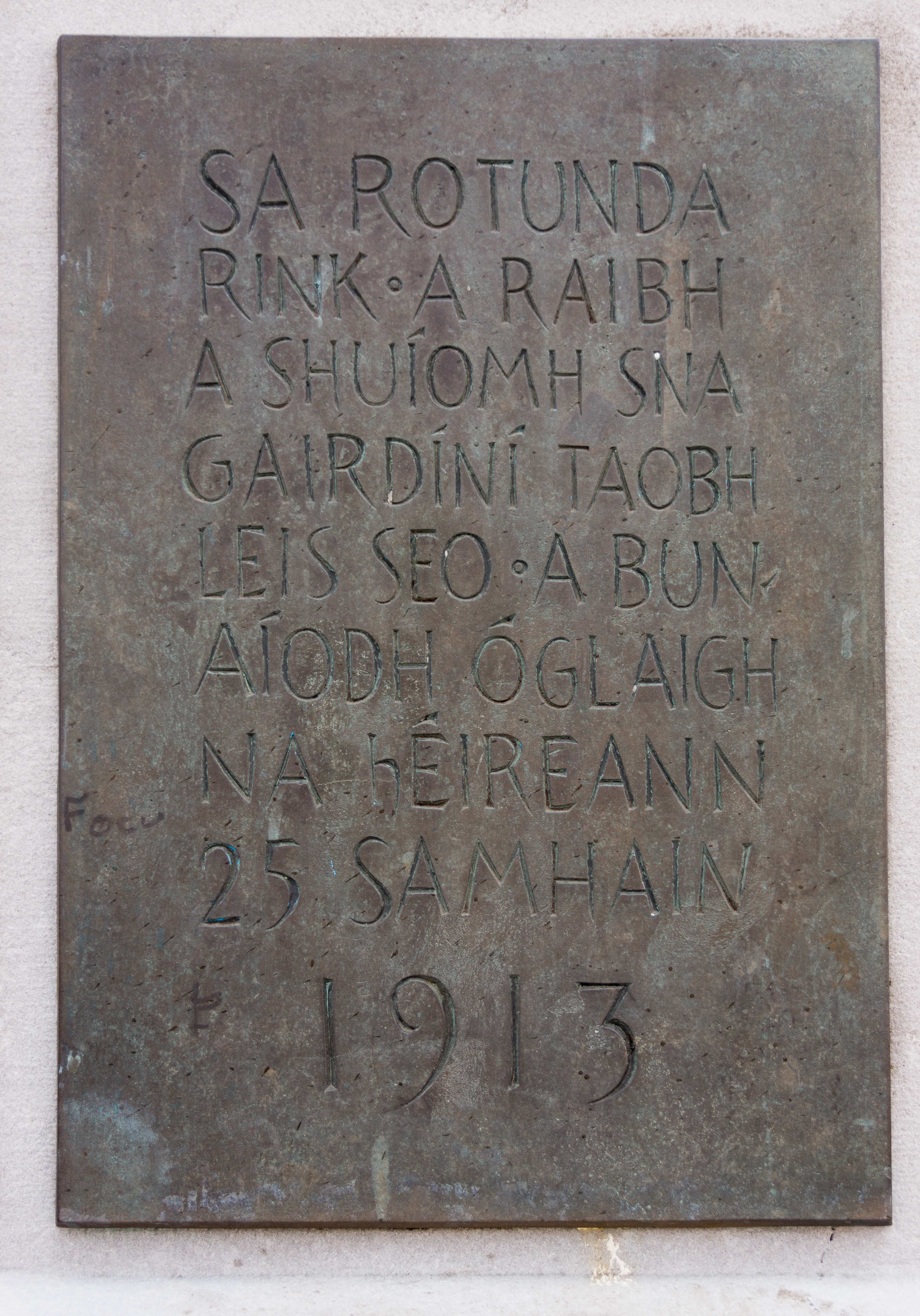 Every day I learn something new. I have walked by this many times and never knew what event it was celebrating. Today, I decided to read the inscription. 25 November - The pro-Home Rule Irish Volunteers are formed at a meeting attended by 4,000 men in Dublin's Rotunda Rink. On 19th November 1913, James Larkin and James Connolly established the Irish Citizen Army as a force to protect workers from the excesses of the Dublin Metropolitan Police. It had a membership of about 350, the majority being members of Unions. The Irish Volunteers, Óglaigh na hÉireann, was founded on 25th November 1913 at a public meeting held in the Rotunda Rink in Dublin. It emerged in response to an article, ‘The North Began’ written by Eoin MacNeill in the Gaelic League paper ‘An Claidheamh Soluis’. The Volunteers included members of the Gaelic League, Ancient Order of Hibernians and Sinn Féin, and, secretly, the IRB and its ranks numbered up to 100,000 at one point. At the time of WW1 the Irish Volunteers broke into two distinct bodies. The National Volunteers, under the direction of John Redmond, went to fight in the Great War; the Irish Volunteers, under the direction of men such as Patrick Pearse and Eoin McNeill, stayed in Ireland and went on to join forces with The Irish Citizens Army in the 1916 Uprising.